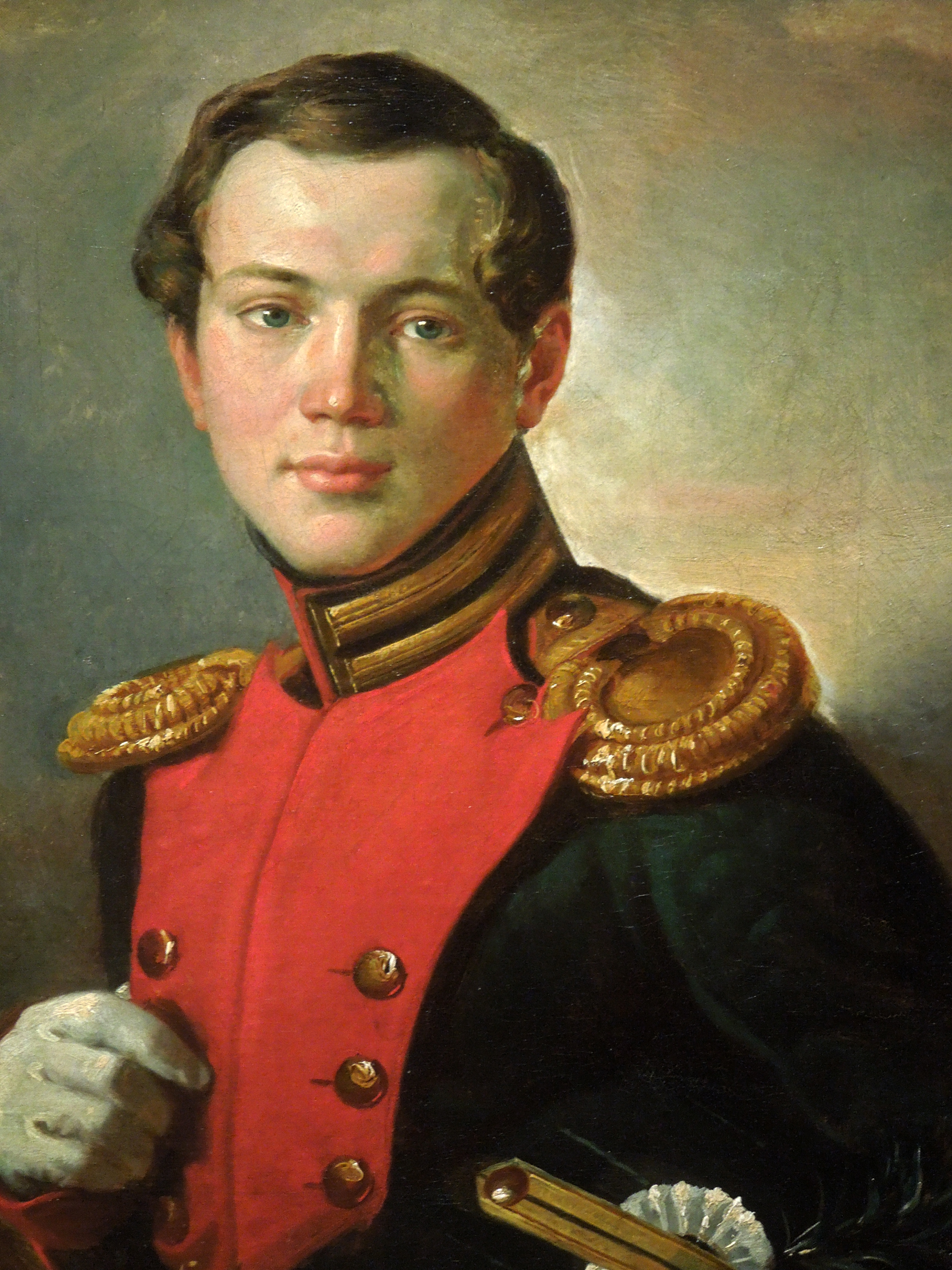 Walenty Wańkowicz - Portrait of Stanisław Chomiński (1824-1829)